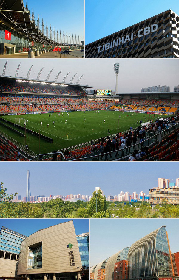 Montage image of Binhai New Area